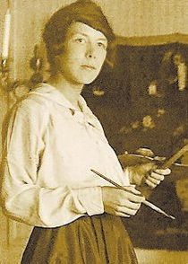 Photo of Swedish artist Sigrid Hjertén (1885-1948)